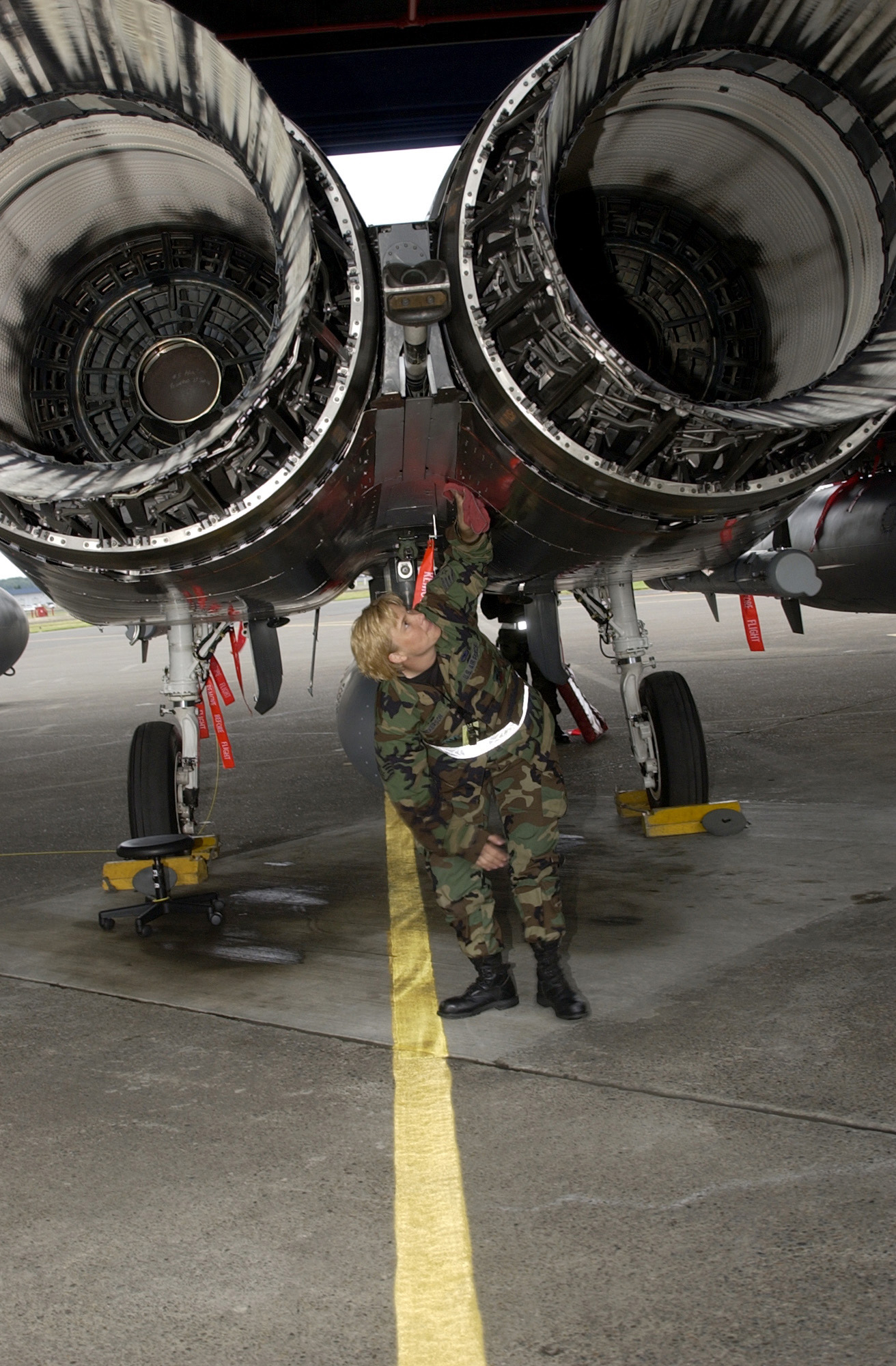 U.S. Air Force Staff Sgt. Kimberly Nickerson performs preflight inspections, cleaning and maintenance on an F-15 Strike Eagle aircraft during an operational readiness inspection at Portland Air National Guard Base, Ore., on June 13, 2006. Nickerson is assigned as a crew chief with the 142nd Aircraft Maintenance Squadron.